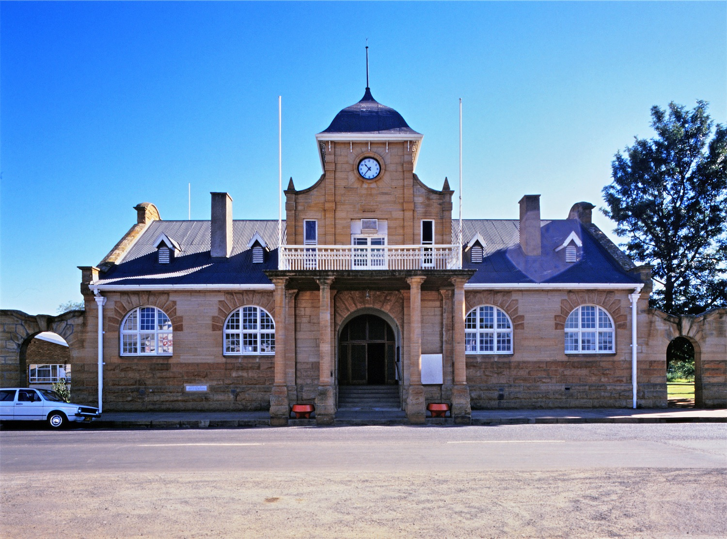 This media shows a South African Protected Site with SAHRA file reference 9/2/447/0018.